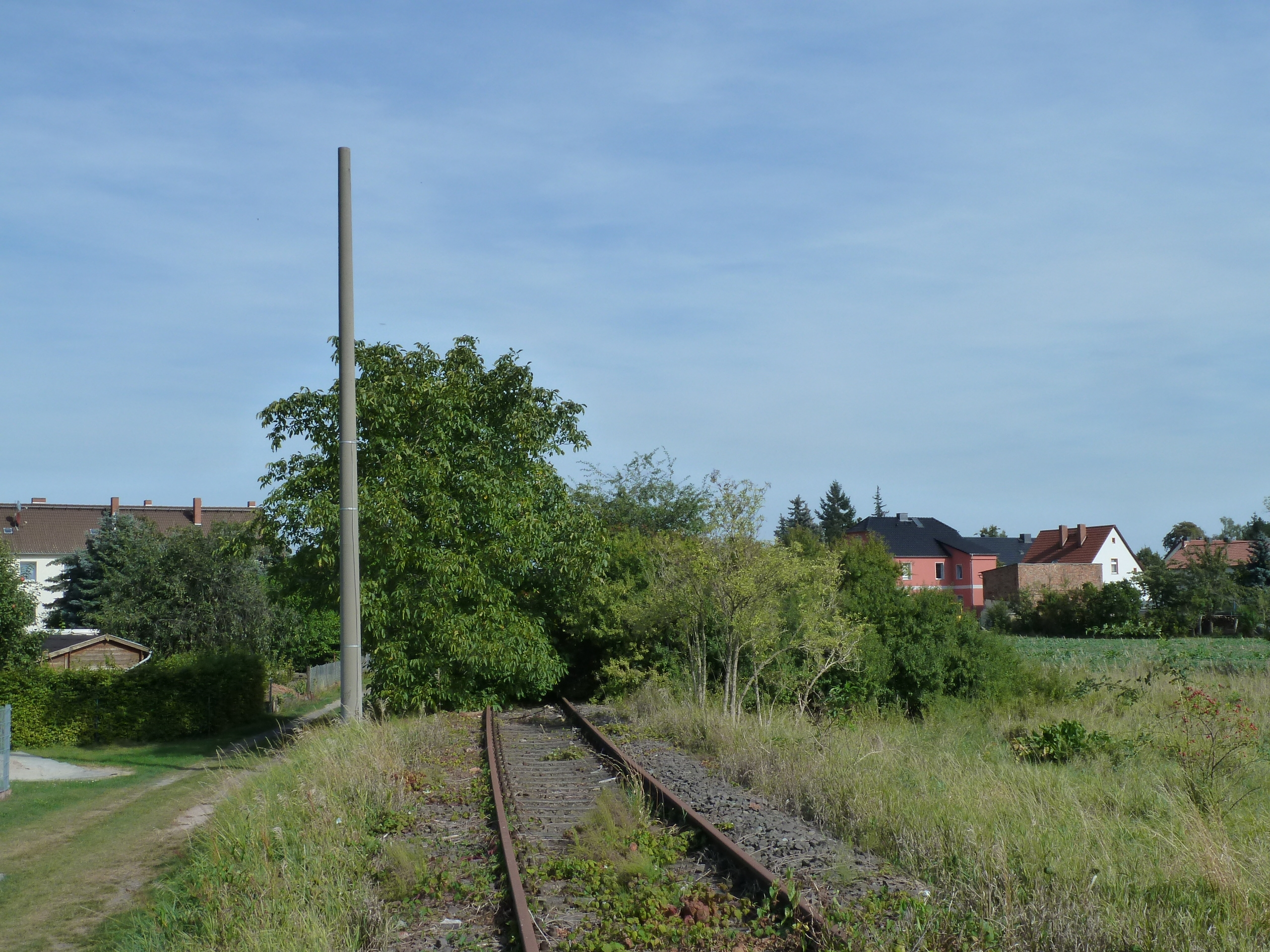 Güterglück train station,southern junction (Barby-Zerbst)